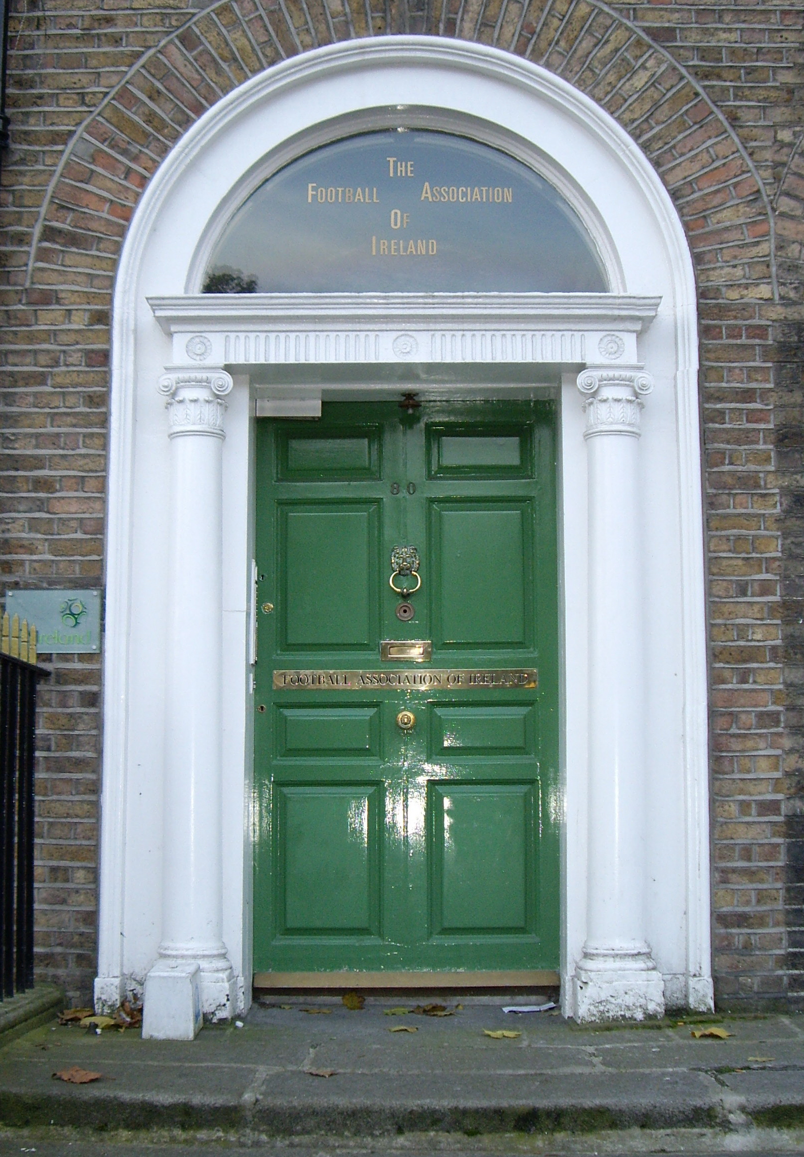 Door of Football Association of Ireland HQ, 80 Merrion Square, Dublin 2, Ireland Note: in December 2007, the FAI moved to new headquarters near Blanchardstown.